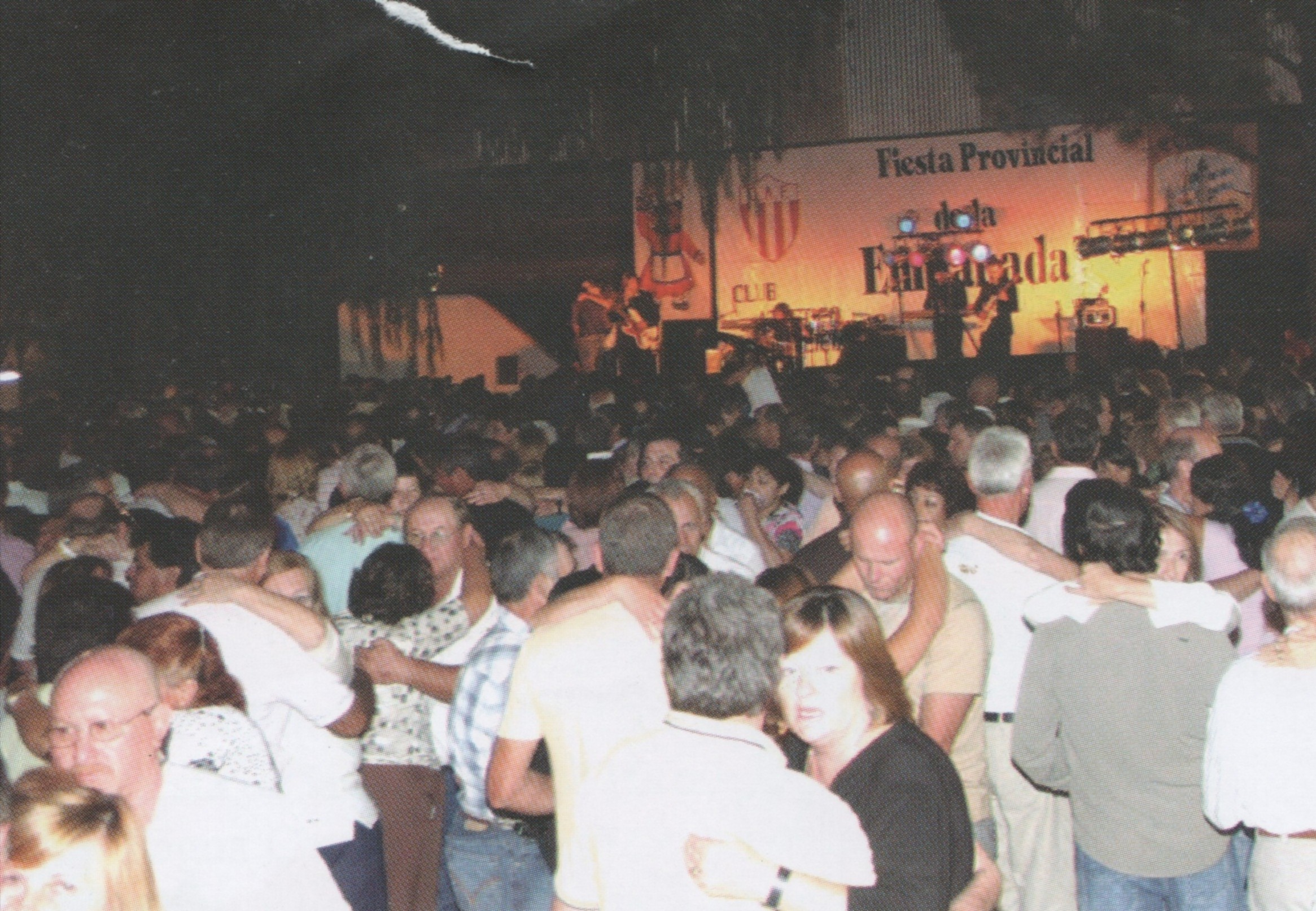 Fiesta de la Empanada 2009